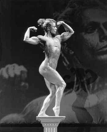 Sharon Bruneau during an on-stage performance at the 1992 Emerald Cup.